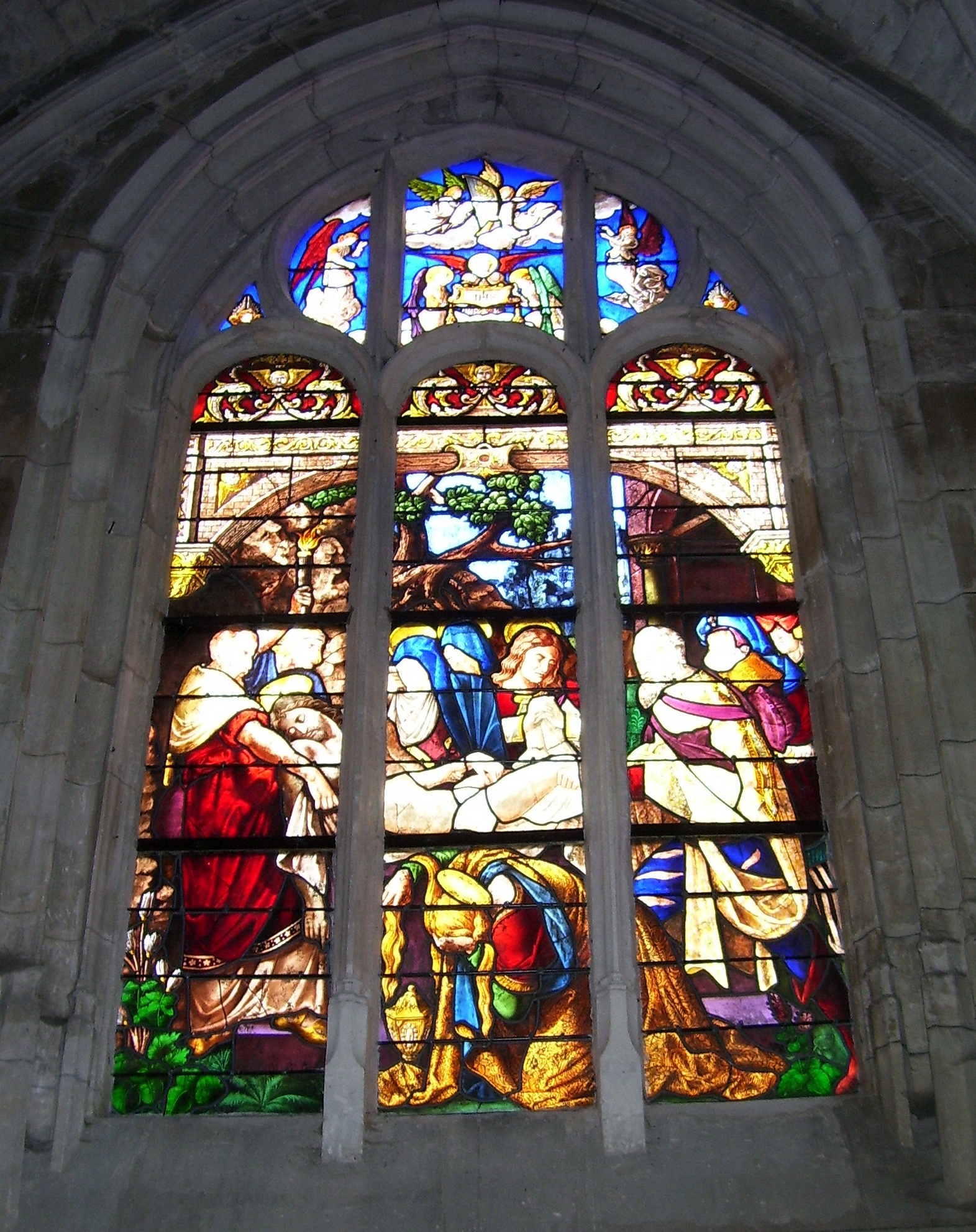 Church window (16th, 17th and 19th century) in the church Saint-Martin of Broglie (département Eure) in France. It shows the entombment of Christ.